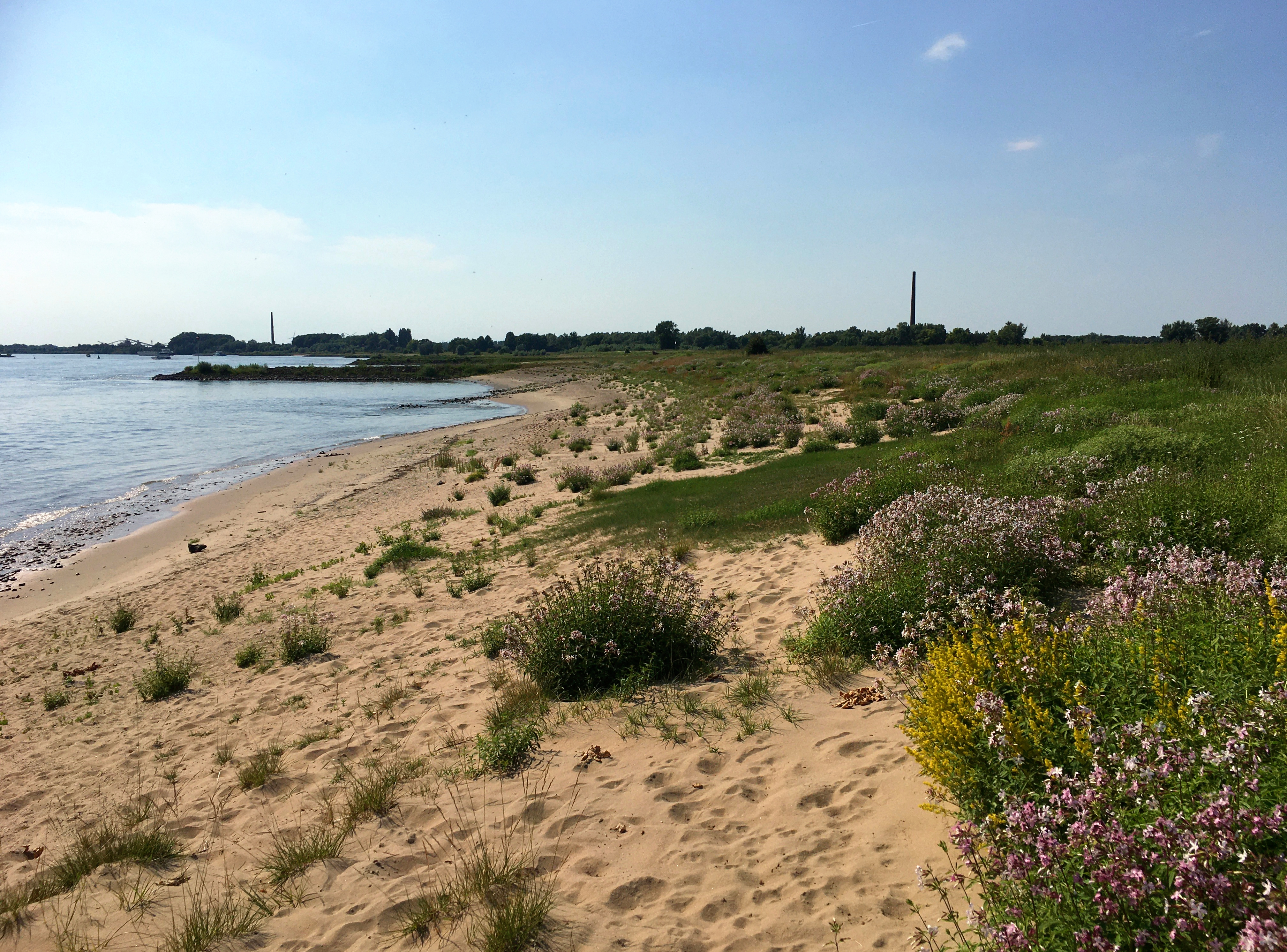 The Konijnenwaard (floodplains) between Gendt and Haalderen (Lingewaard). This fluvial nature reserve belongs to the Gelderse Poort.